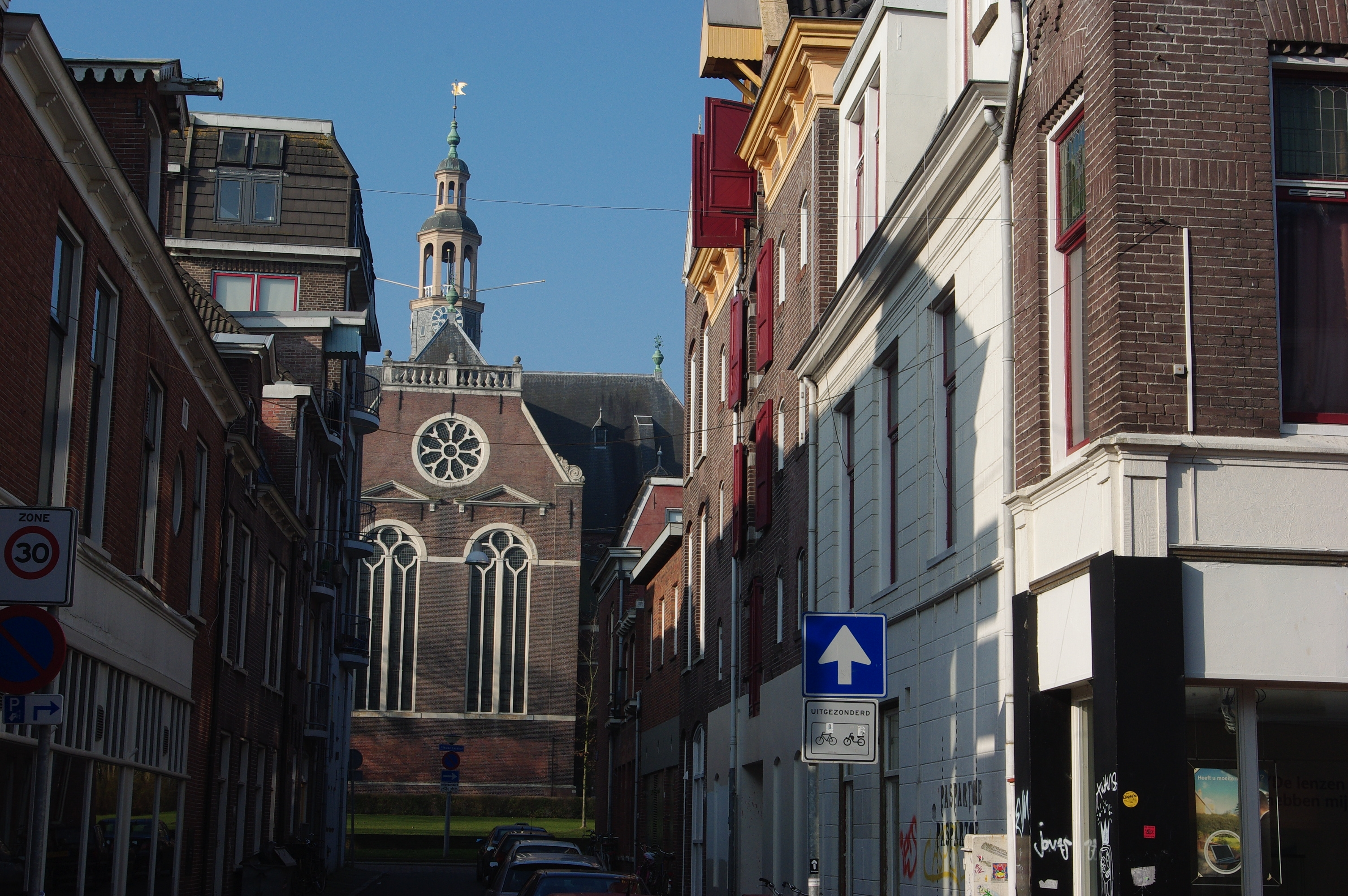 Rotterdammerstraatje leading to the Nieuwe Kerk